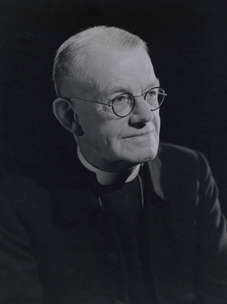 Charles Edward Curzon (1878-1954), Bishop of Stepney and Bishop of Exeter. Photograph by Bassano Ltd, photographers. This photo shows him as Bishop of Exeter. All attempts have been made to find the individual photographer online and in libraries, but to no avail.